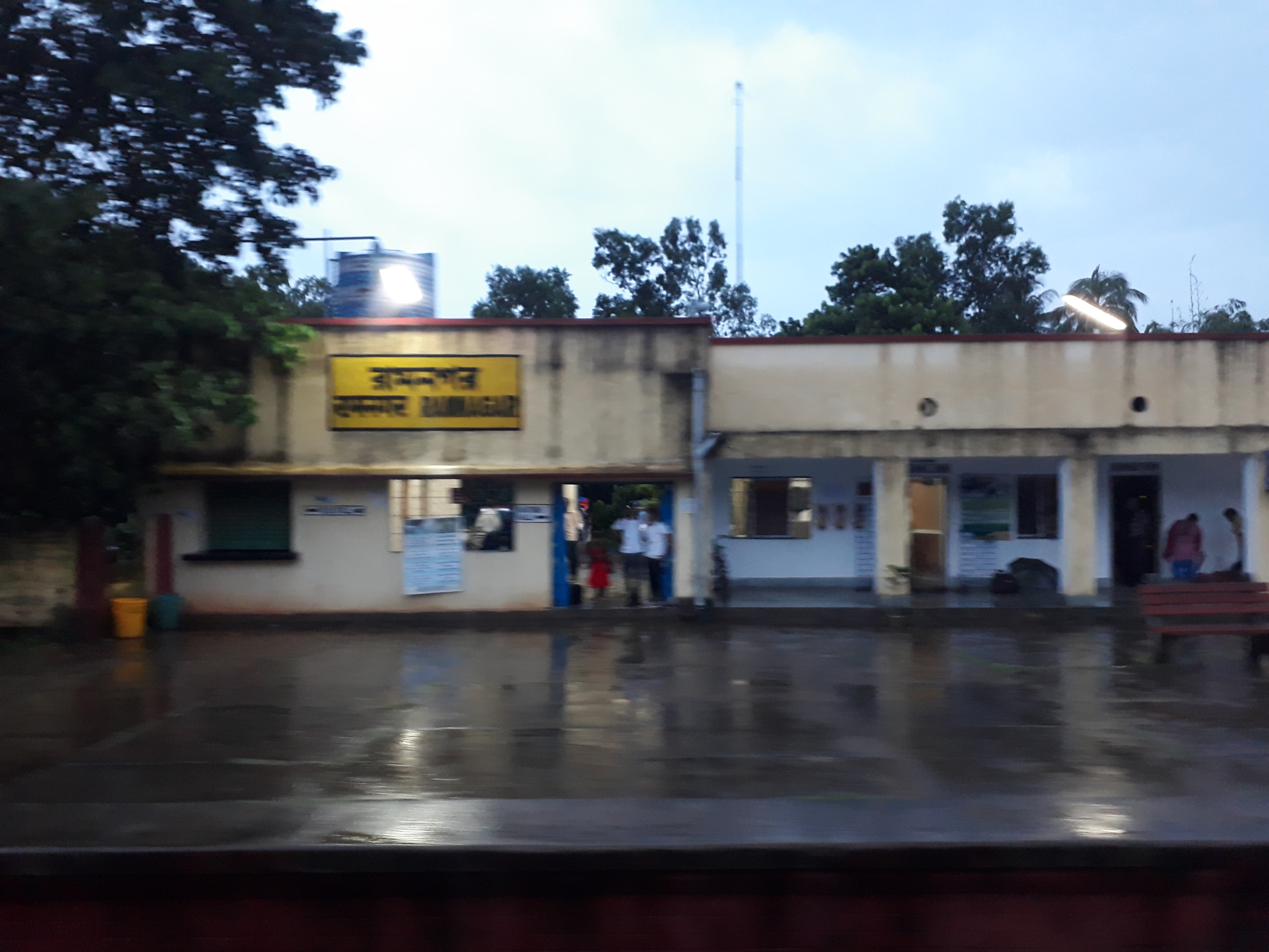 Ramnagar Railway Station. Digha-Tamluk line, East Midnapur